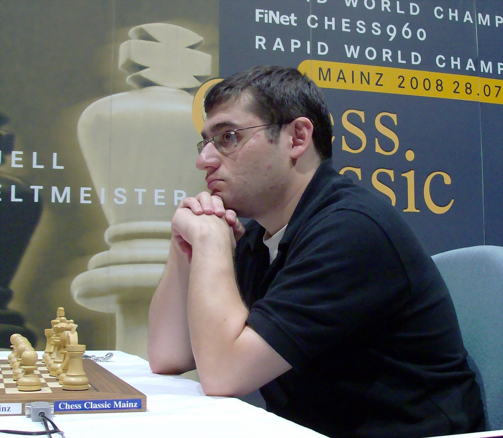 Sergei Movsesian at the Chess Classics 2008